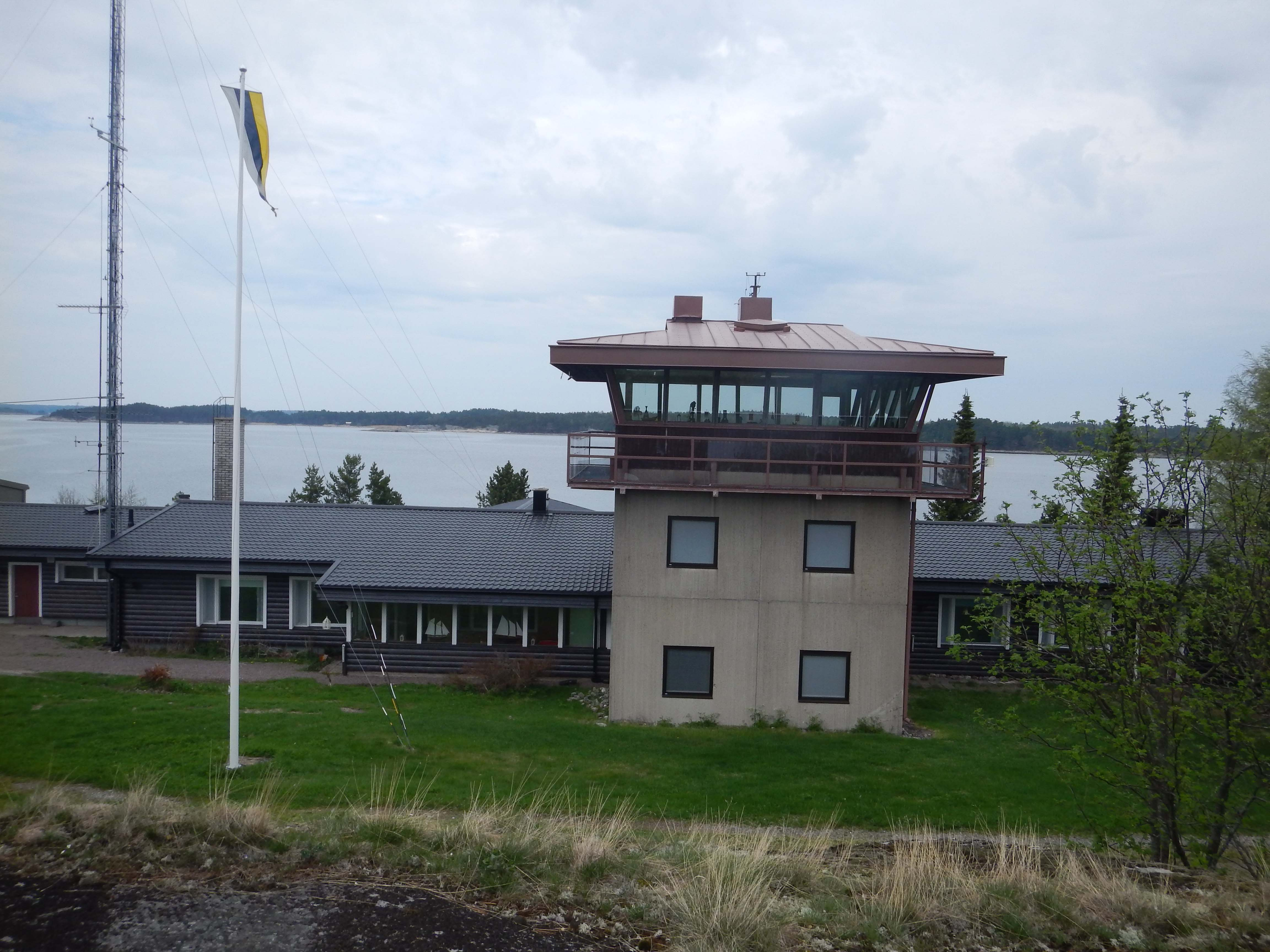 Main buildings n Fagerholm